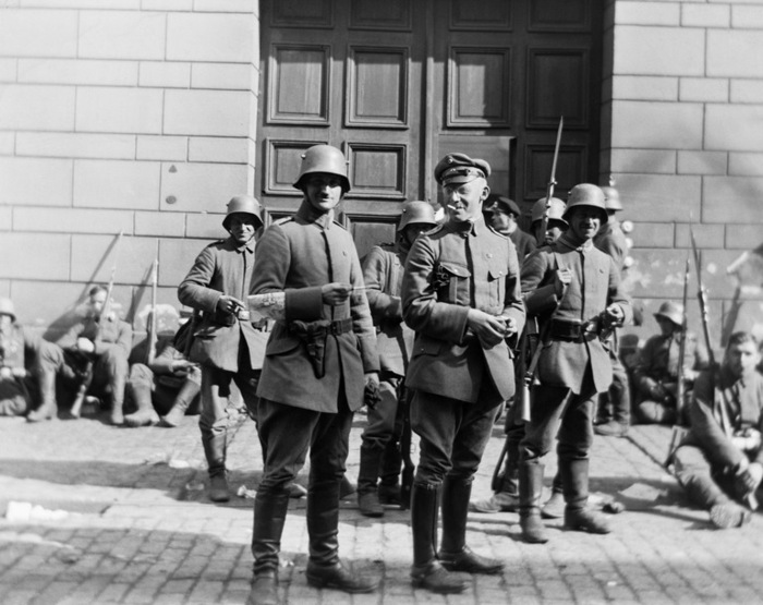 1918 Finnish Civil War Battle of Helsinki: Officers of the German Baltic Sea Division after their tropps had taken the Red Guard headquarters in Smolna house.